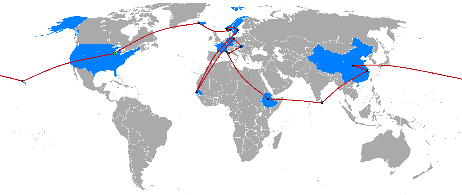 The Route Map of The Amazing Race 6, recreated with black dot leg stops